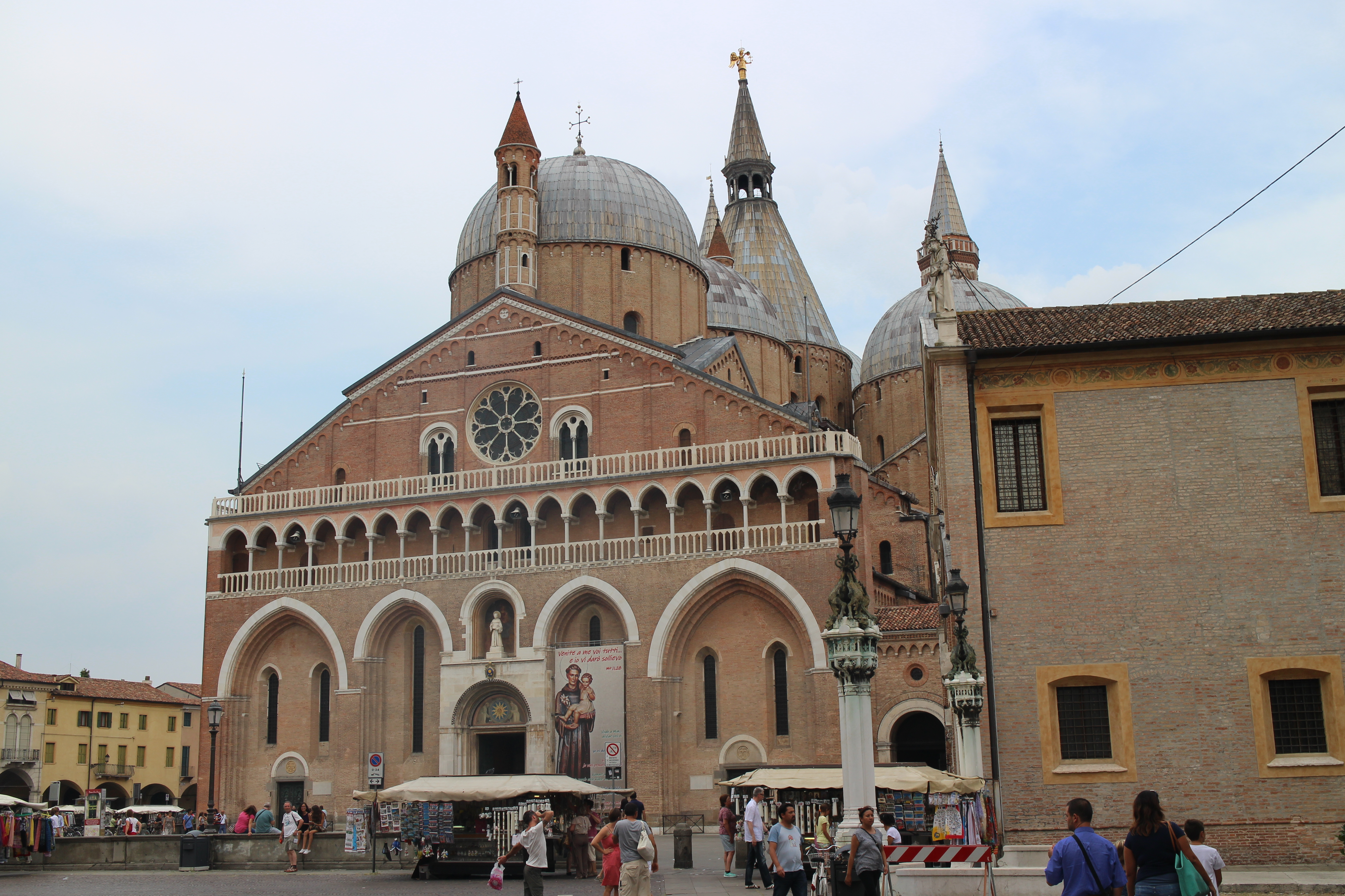 Duomo (Padua) - Exterior